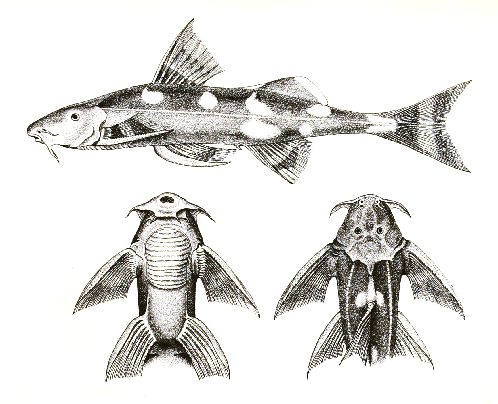 The species names / identity need verification - original names from plate are included here. The original plates showed the fishes facing right and have been flipped here. Pseudecheneis sulcatus